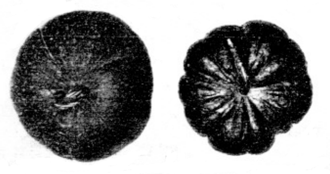 Wild Cucurbita andreana population in Jesús María (Córdoba, Argentina) published in 1945. Probably Cucurbita maxima subsp. andreana x Cucurbita maxima subsp. maxima.